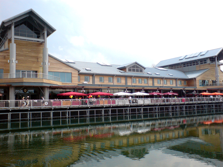 The Boardwalk on opening day (14 June 2007). Picture taken from Old Orleans. Restaurants from left to right: Gourmet Burger Kitchen, La Tasca, Wagamama, Strada, Nandos, Giraffe. Part of Bella Italia can be seen on the balcony top right. Cafe Rouge sits just underneath Bella Italia. Looking at this picture, Spur Steak House is located to the left of Gourmet Burger Kitchen and was not open on 14 June - work was continuing on this site.